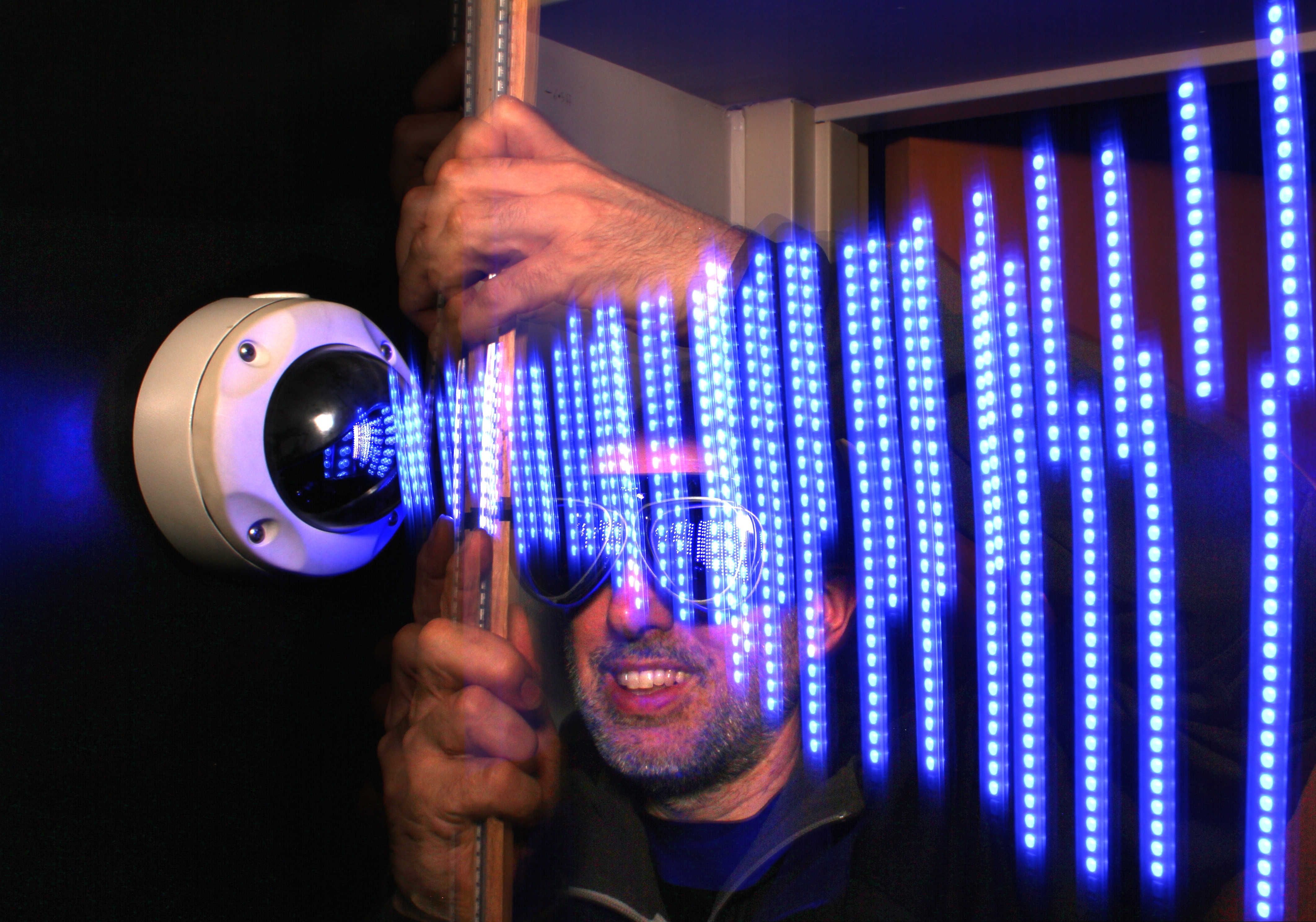 Lights-in-motion become sight-in-motion: Surveilluminescent light strip shows the sightfield of an image array or vision sensor, by way of long-exposure photography. For more information